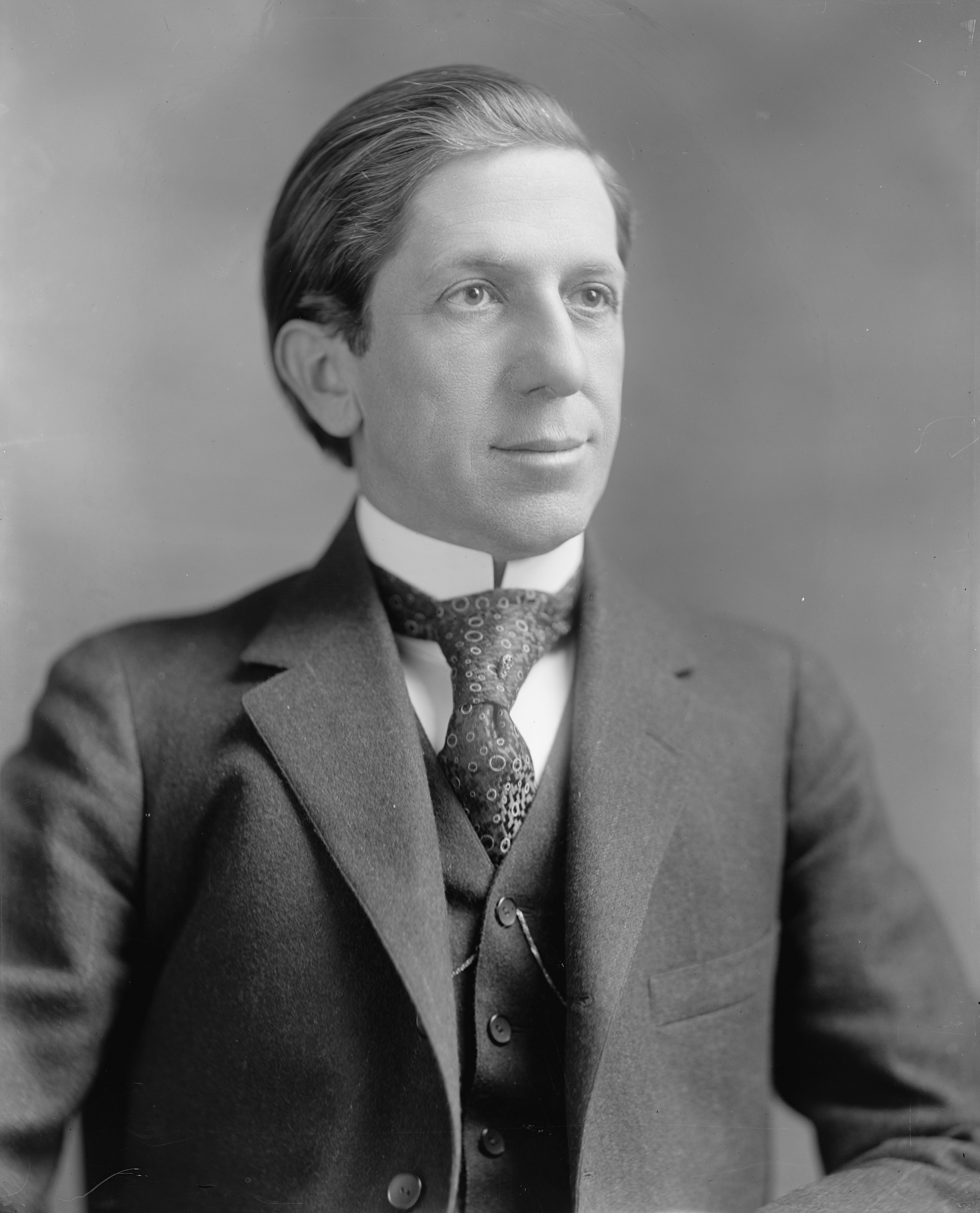 Title: HOEY, CLYDE R. HONORABLE Abstract/medium: 1 negative : glass ; 8 x 10 in. or smaller